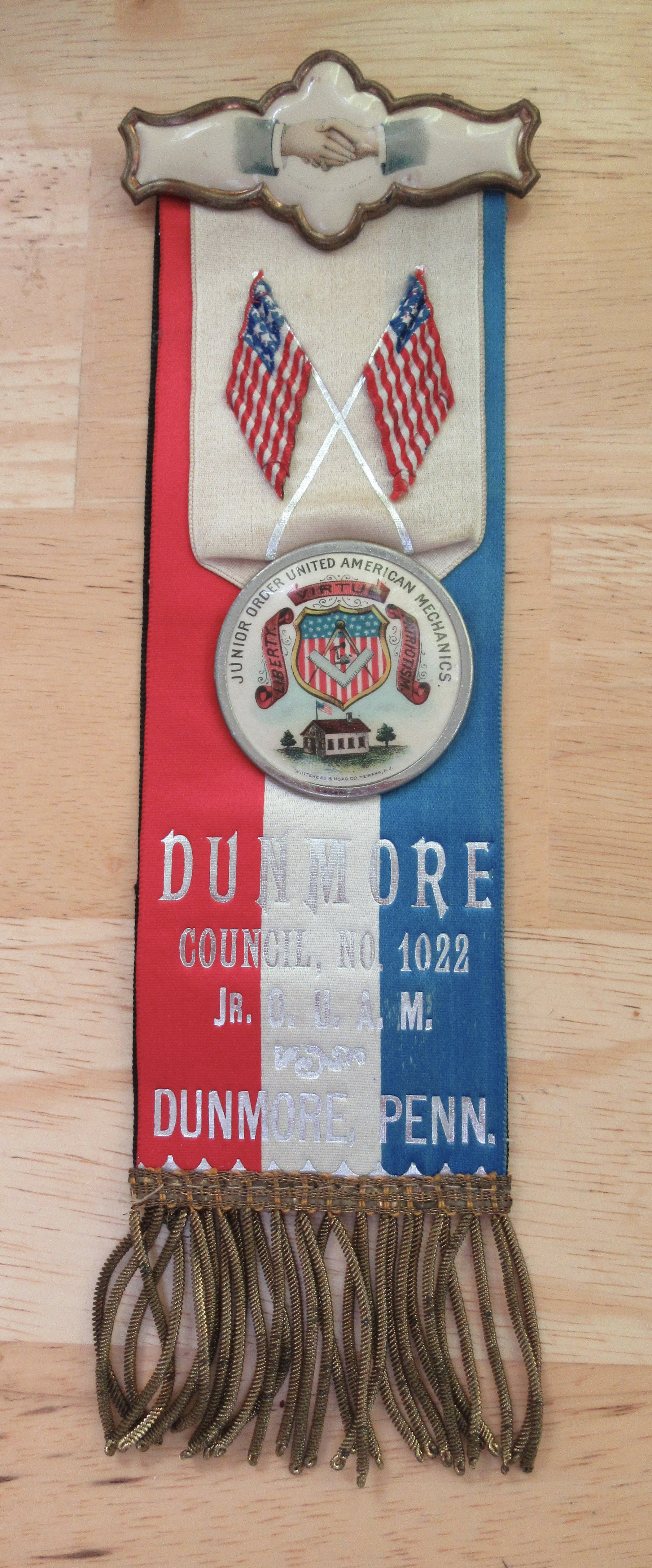 A Junior Order of United American Mechanics ribbon from a chapter in Dunmore, Pennsylvania.